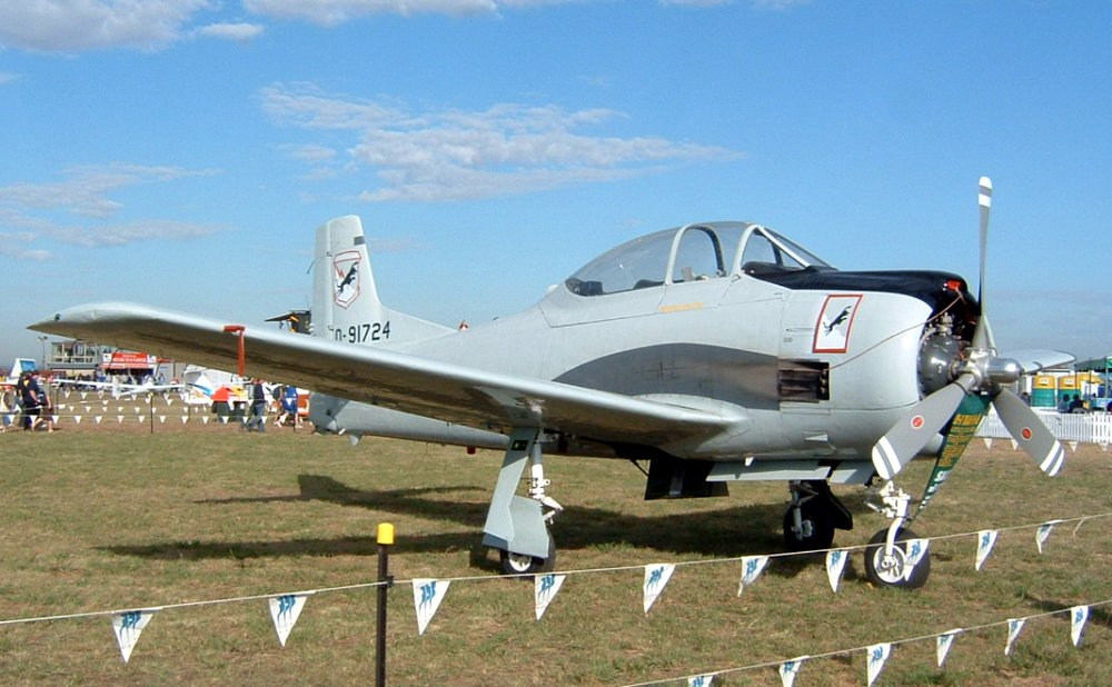 North American T-28 Trojan trainer aircraft, ex-Royal Laotian Air Force. Photo by Gsl at Avalon Airport, Australia, in March 2005.